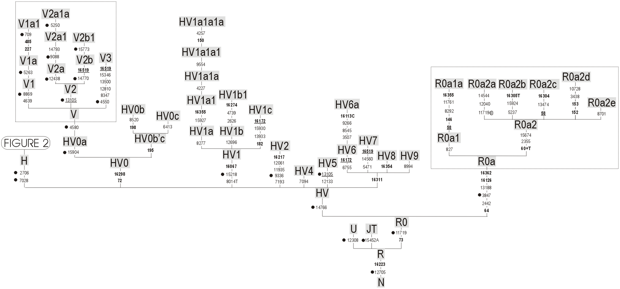 Phylogeny of mtDNA haplogroup R0. An expanded view of the haplogroup H phylogeny is shown in other figure below. Underlined positions signal parallel mutations, while @ indicates a back mutation. In bold are the control region variants, whereas dots indicate the SNPs selected and genotyped in the present study.